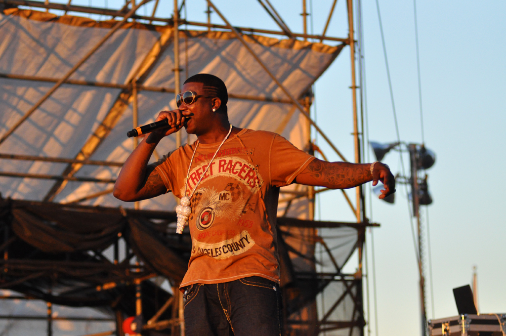 Gucci Mane at the Williamsburg Waterfront, Williamsburg, Brooklyn, August 29, 2010